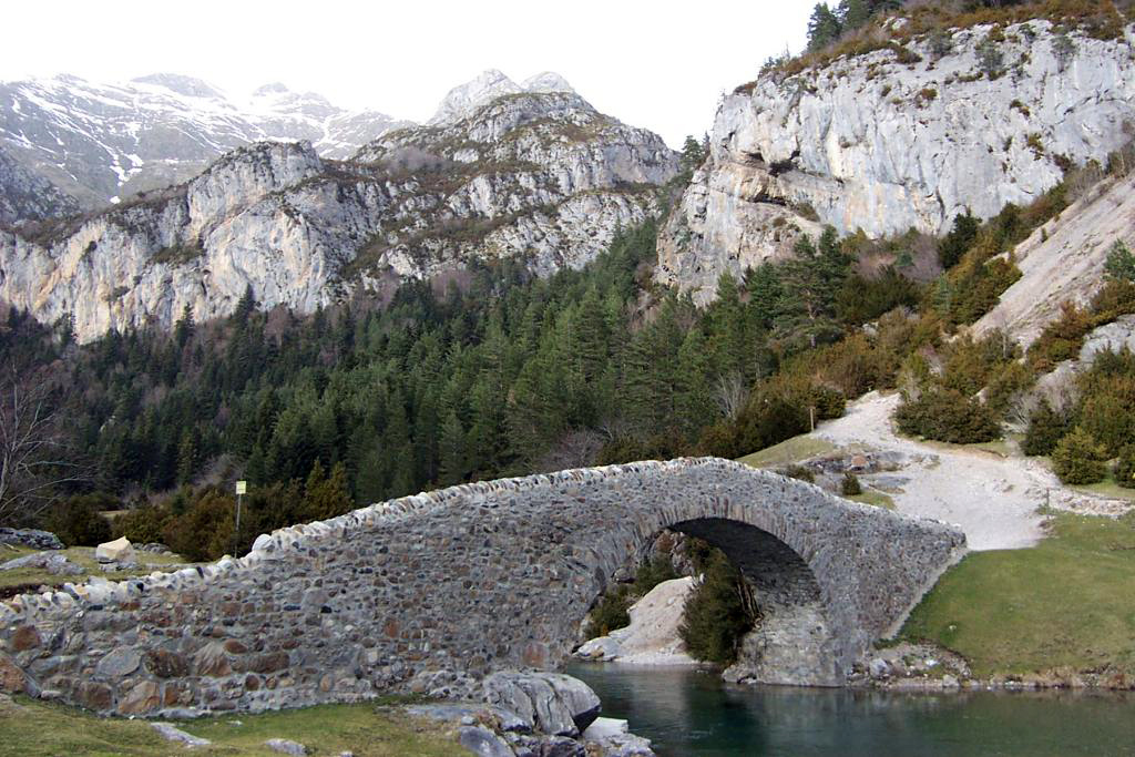 Bujaruelo Valley (Pyrenees). Romanesque bridge of "San Nicolas de Bujaruelo". Ninth century.